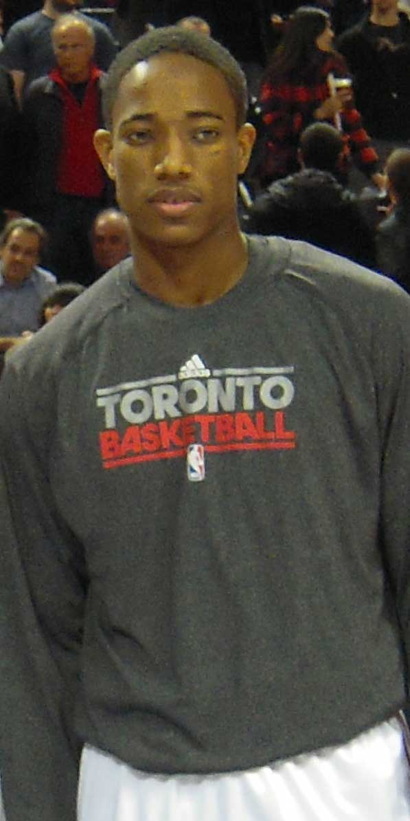 DeMar DeRozan of the Toronto Raptors This file has been extracted from another file: Consul General Welcomes NBA Basketball to Montreal.jpg